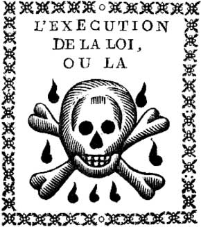 Revolutionary insignia of the Carabots of Caen: "The Execution of the Law or… [Death]"